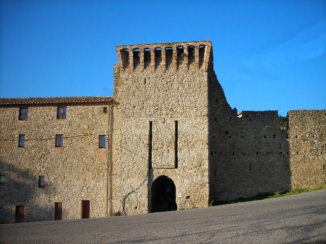 Castle of San Gregorio, Assisi, Perugia, Umbria, Italy